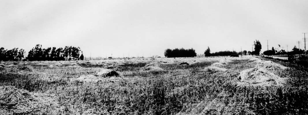 Early view of a field in Culver City.